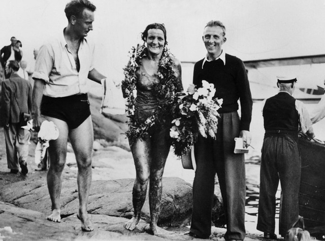 Sigfrid Bergman, to the right, and his fellow journalist colleague Staffan Tjerneld celebrating the swimmer Sally Bauer after she crossed the Sea of Åland in 1938 (30 km in 13,06 hrs).